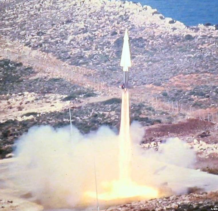 Nike-Hercules firing at NAMFI by 220 Squadron RNLAF